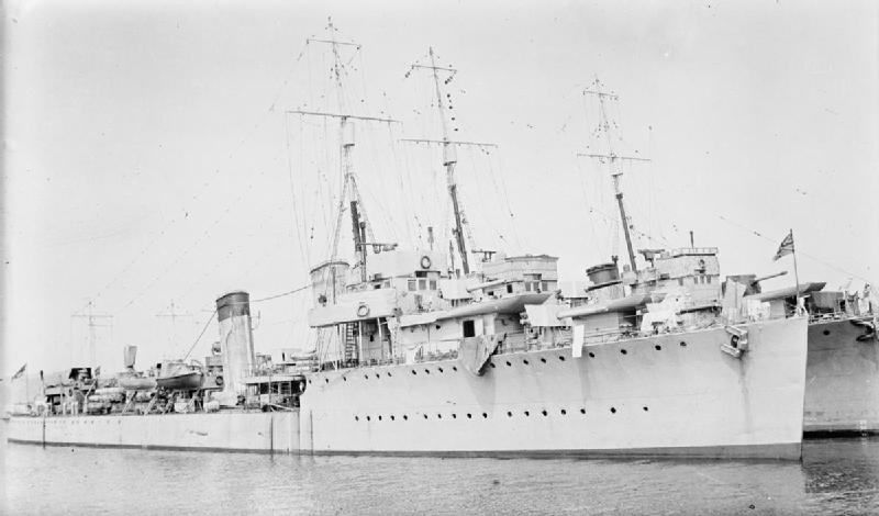 Photograph of British Shakespeare class flotilla leader HMS Shakespeare.